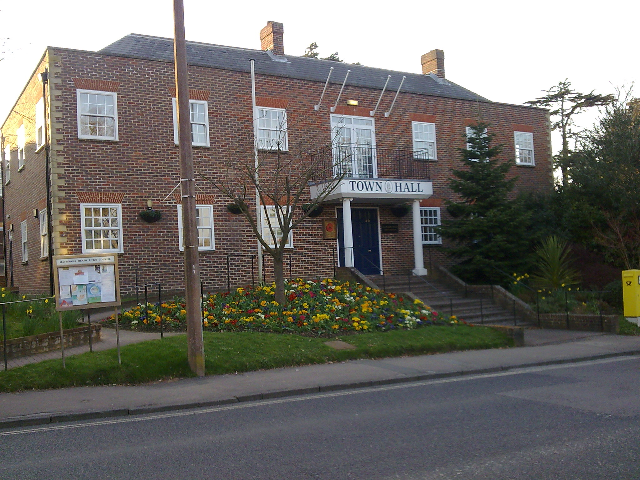 Haywards Heath Town Hall. The yellow postbox is German, representing the twin town of Traunstein.